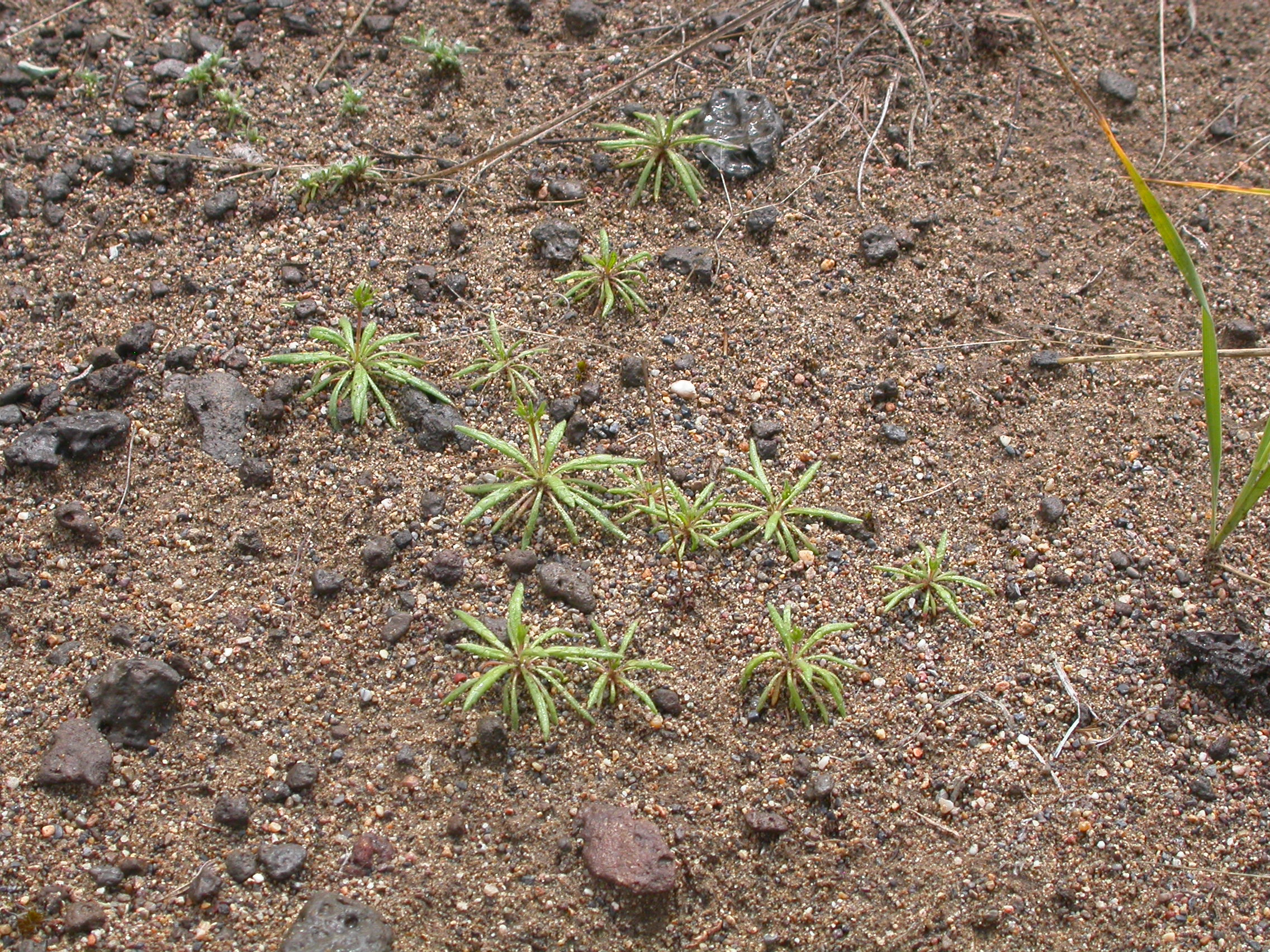 an annual herb common to sandy sites and flowering well into mid summer; the leaves are distinctively hairy and narrow and the margins are slightly inrolled